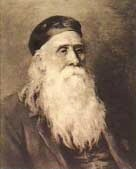 John Ridley